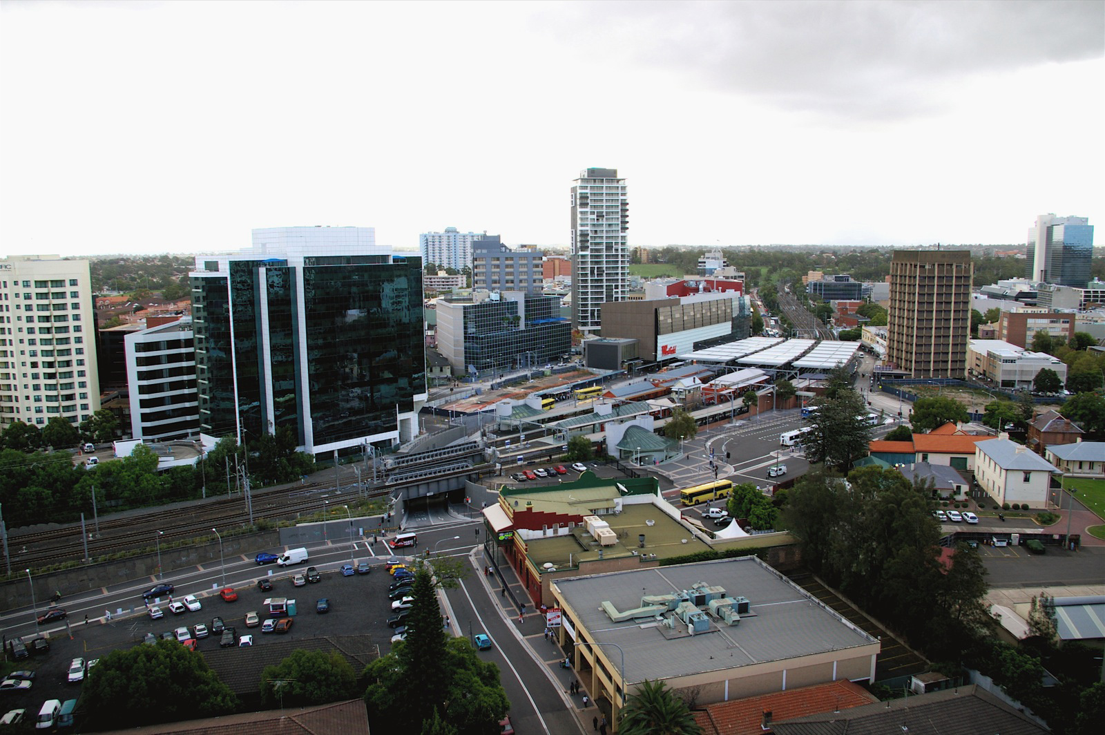 Parramatta CBD, with transport interchange in the centre of the photo